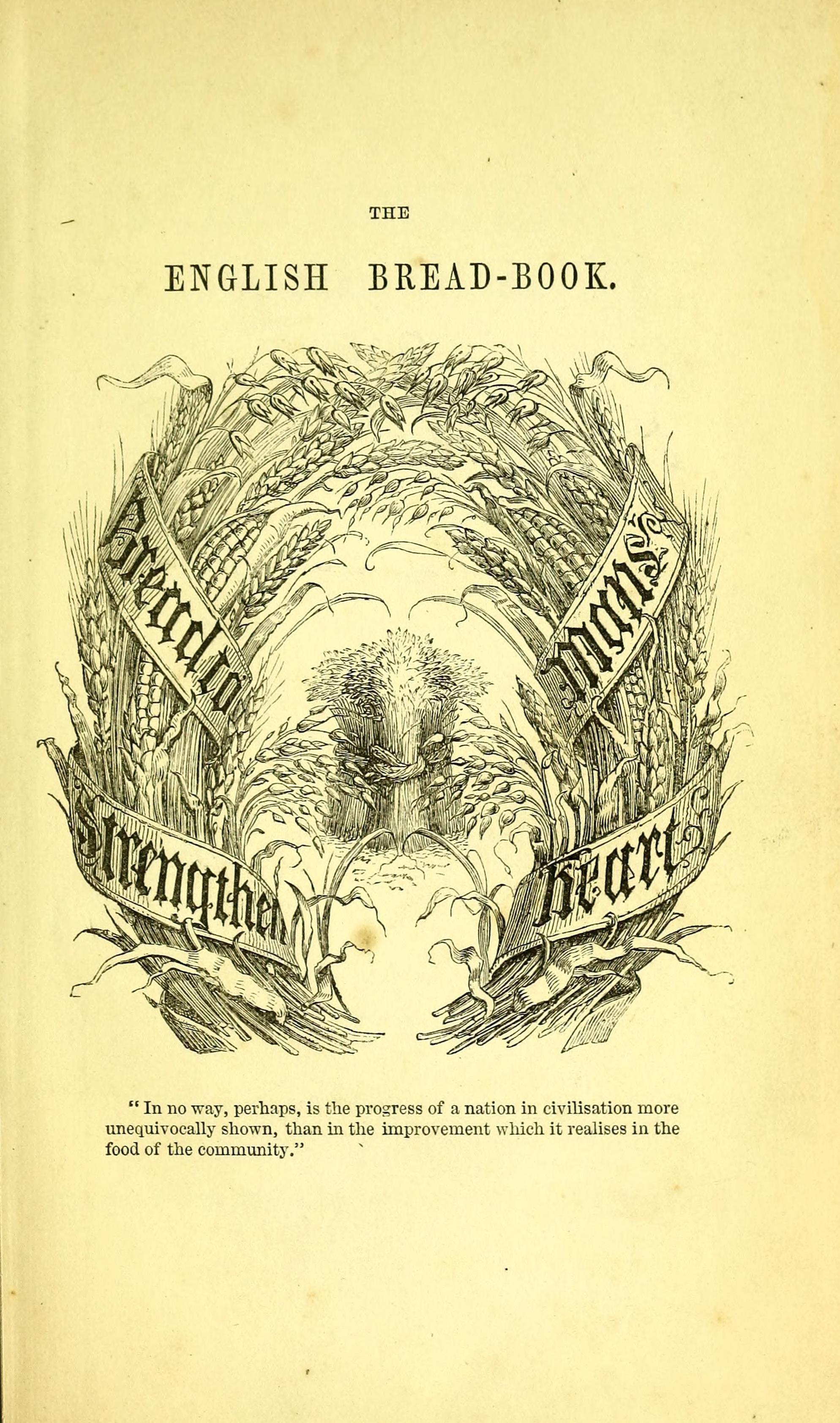 Frontispiece from English bread-book for domestic use, adapted to families of every grade from 1857